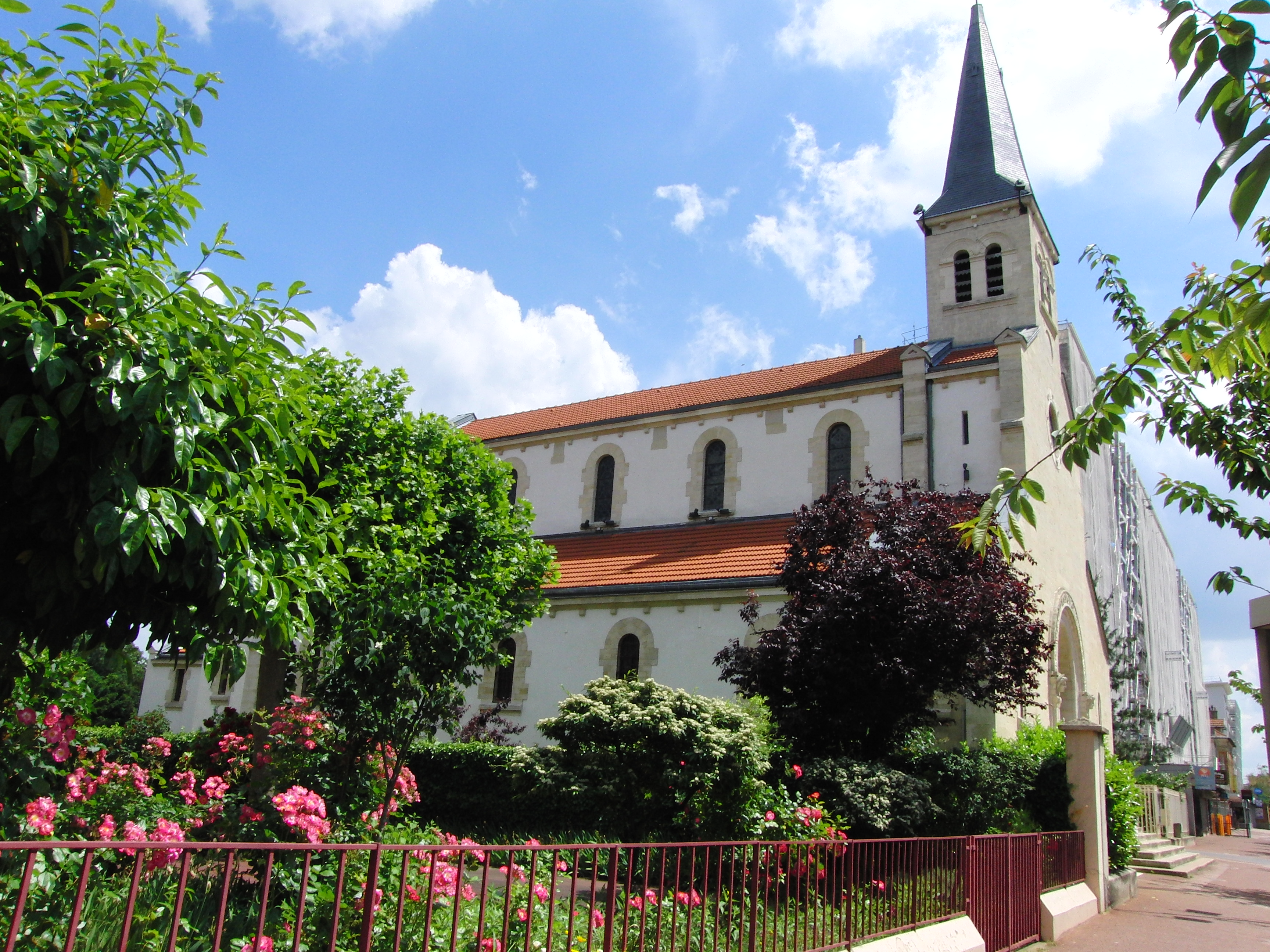 The Saint Charles Borromée church of Joinville-le-Pont